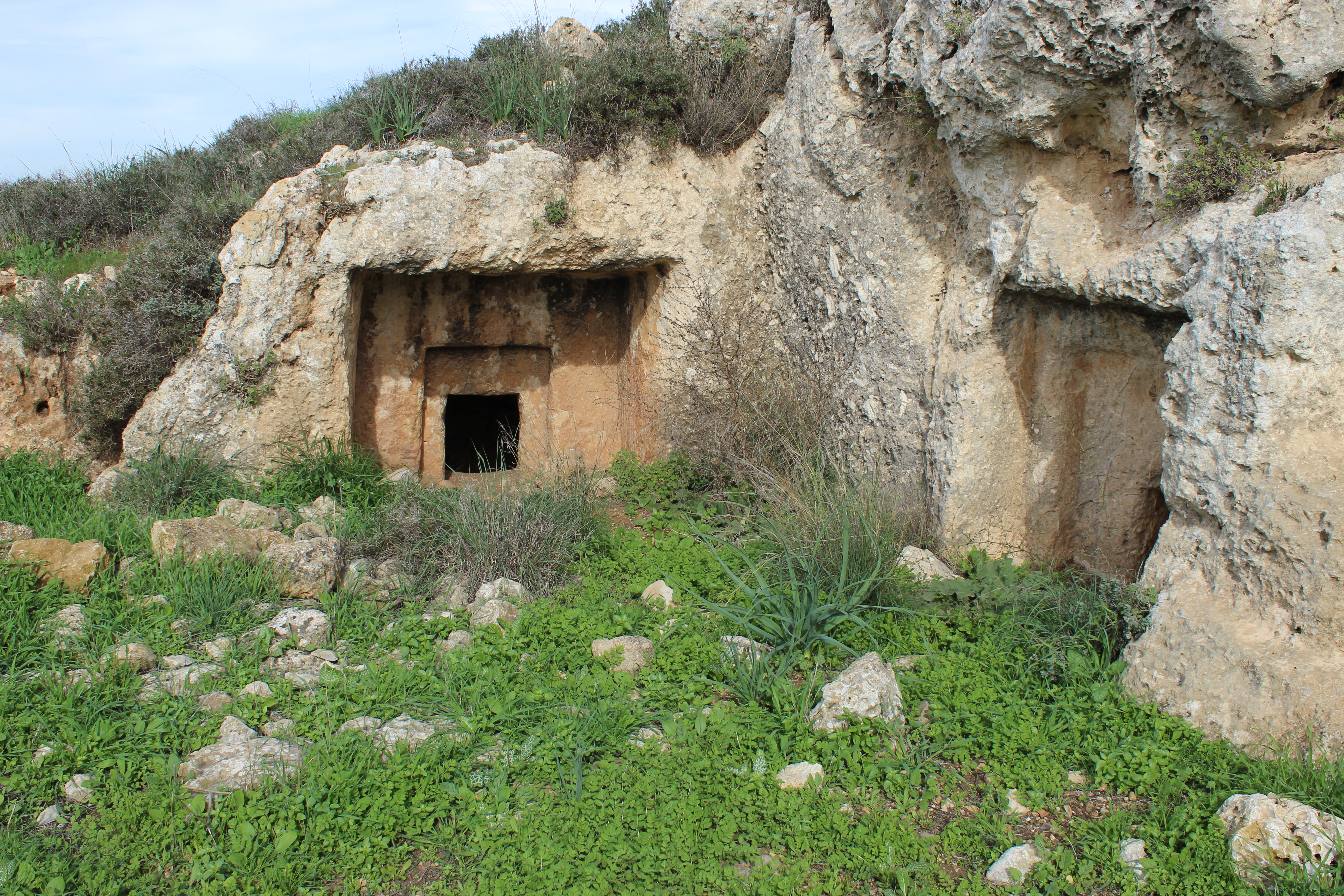 Tomb at Khirbet Jurish